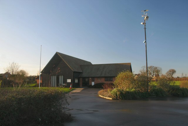 Ringshall village hall The village hall is situated in the centre of the small village of Ringshall Stocks, known locally as simply 'Ringshall'.